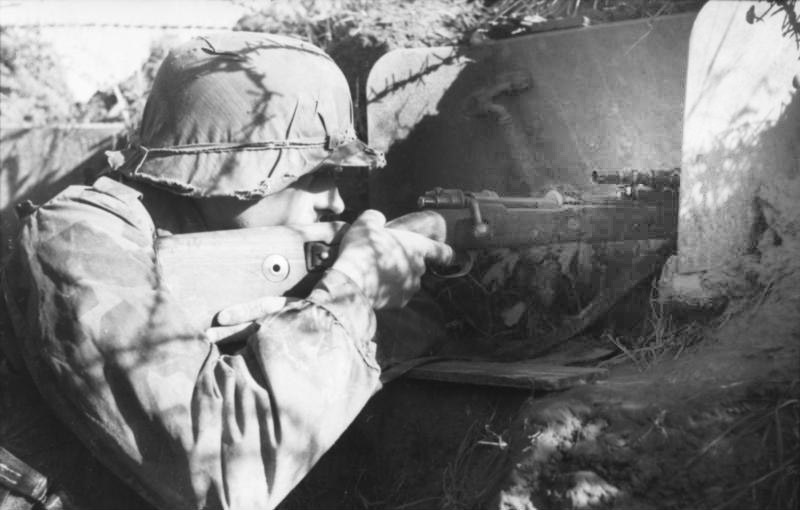 Information added by Wikimedia users.Scharfschütze der Luftwaffe (Felddivision)